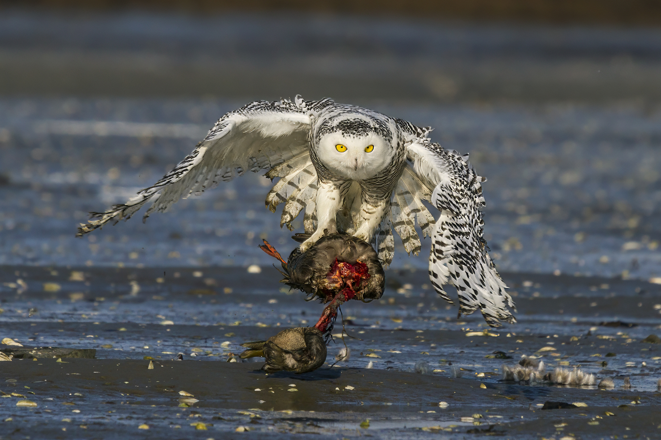 A Snowy Owl carries its kill, an American Black Duck, in "the pool" in Biddeford Pool, ME. (Low Tide)